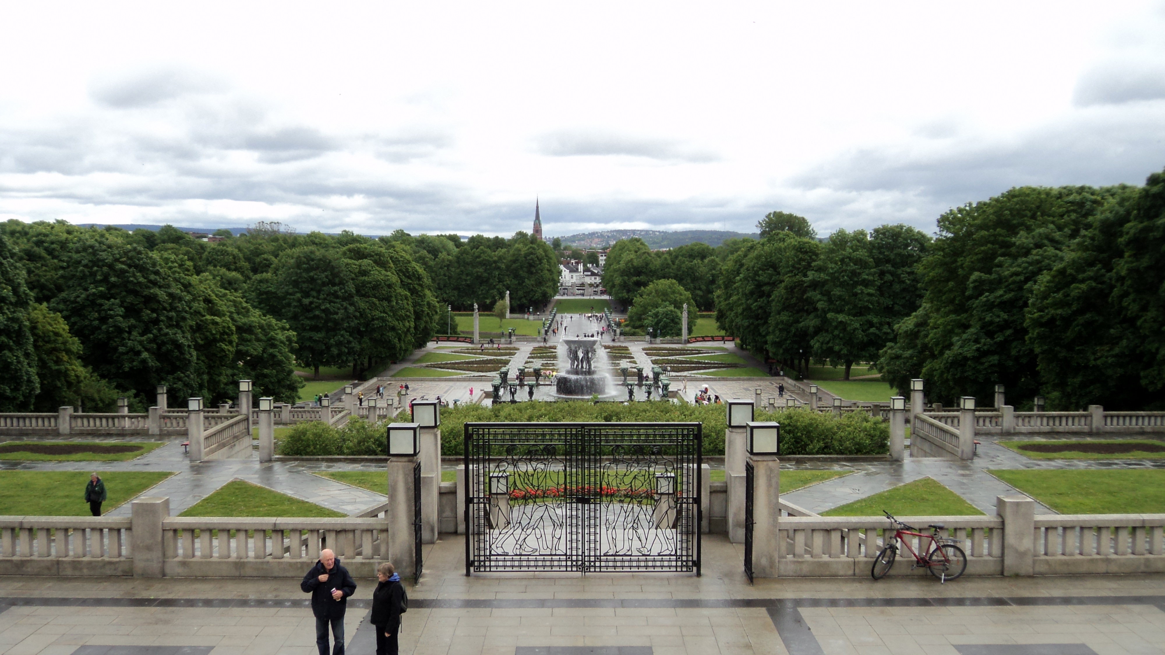 View of the fountain from the monolith